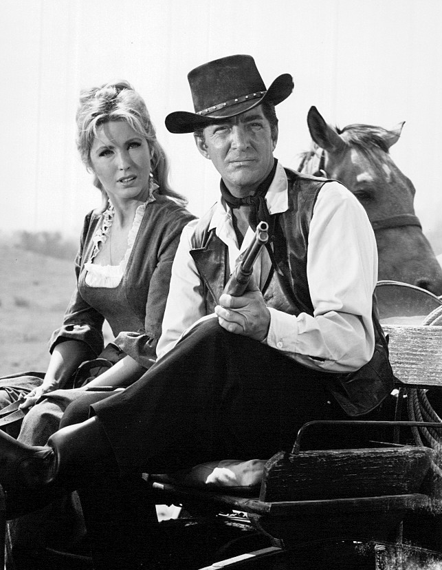 Photo of Dean Martin guest starring as gunfighter Canliss and Laura Devon as his wife, from the television series Rawhide.